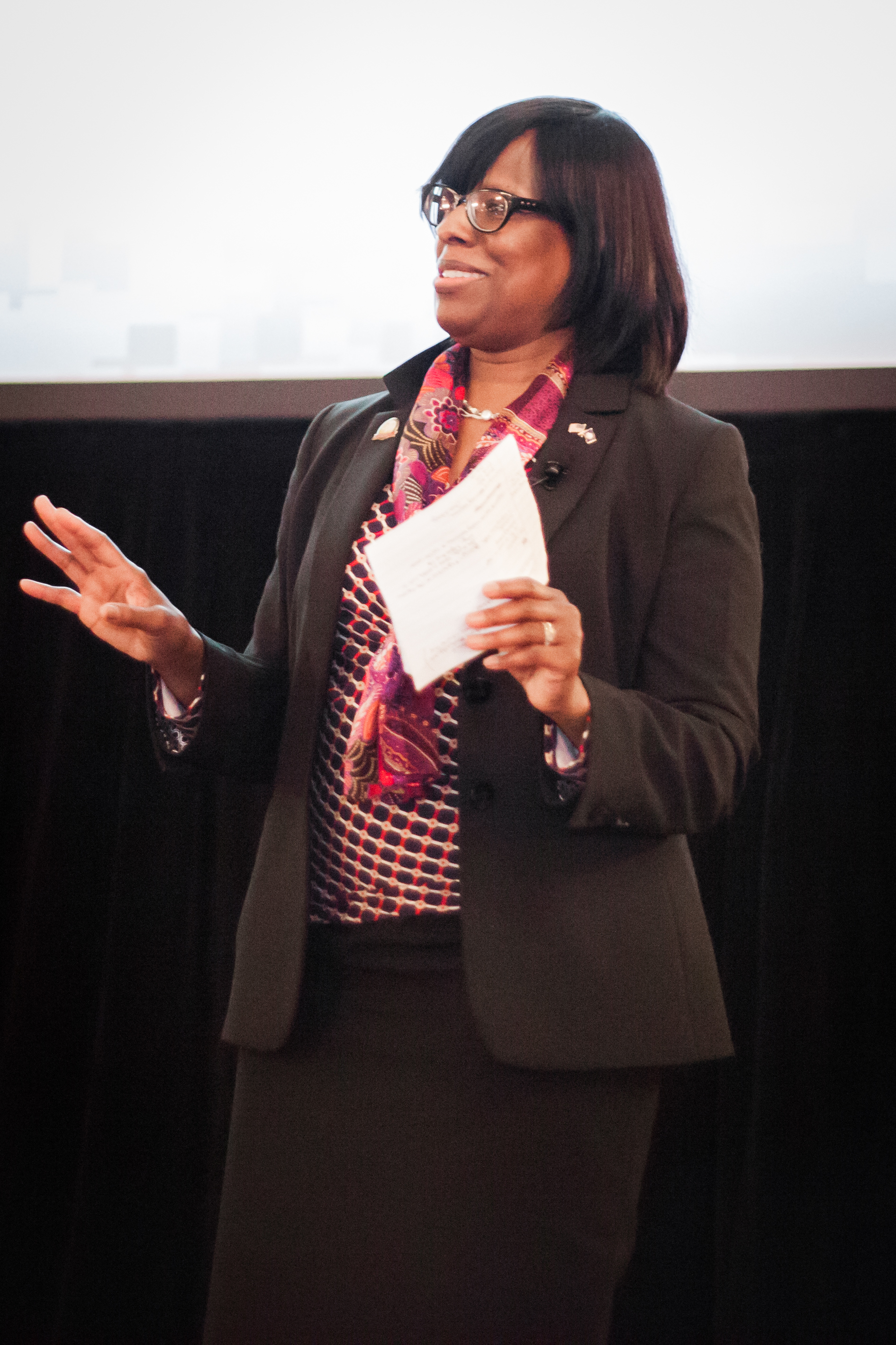 Kentucky Lt. Gov., Jenean Hampton, speaks about her experience as a transitioning service member and how different the transition process is today at the 2017 Soldier for Life-Transition Assistance Program Symposium held in Louisville, Ky., March 30. The Army’s SFL-TAP is the program all transitioning Soldiers attend when deciding to leave active duty service. The program teaches career and civilian skills such as resume writing, applying to civilian jobs, interview techniques, entrepreneurship opportunities, and much more. Approximately 100,000 Soldiers transition from the active duty Army to the civilian sector each year.